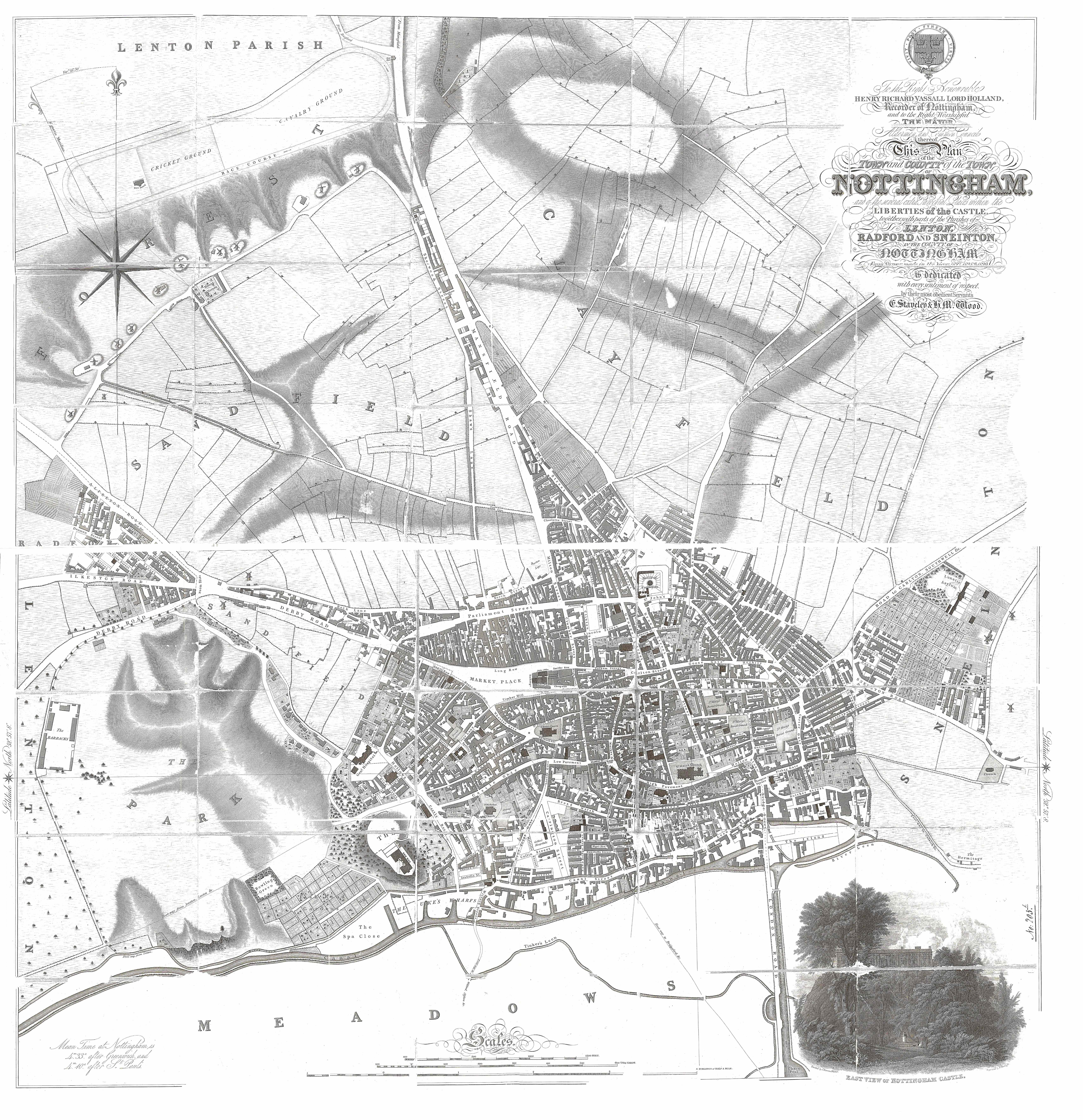 This Plan of the Town and County of the Town of Nottingham and of the several extra Parochial place within the Libertines of the Castle, together with parts of the Parishes of Lenton, Radford and Sneinton, in the County of Nottingham – From Surveys made in the Years 1827, 1828 & 1829 is dedicated with every sentiment of respect by their most obedient servants E. Staveley & H.M. Wood